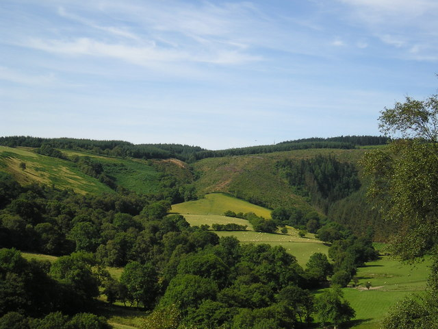 Clocaenog Forest at head of Clywedog Valley The Eastern fringe of Clocaenog Forest at the upper reaches of the Afon Clywedog. The Wind Farm (near Foel Goch) can be seen along the horizon